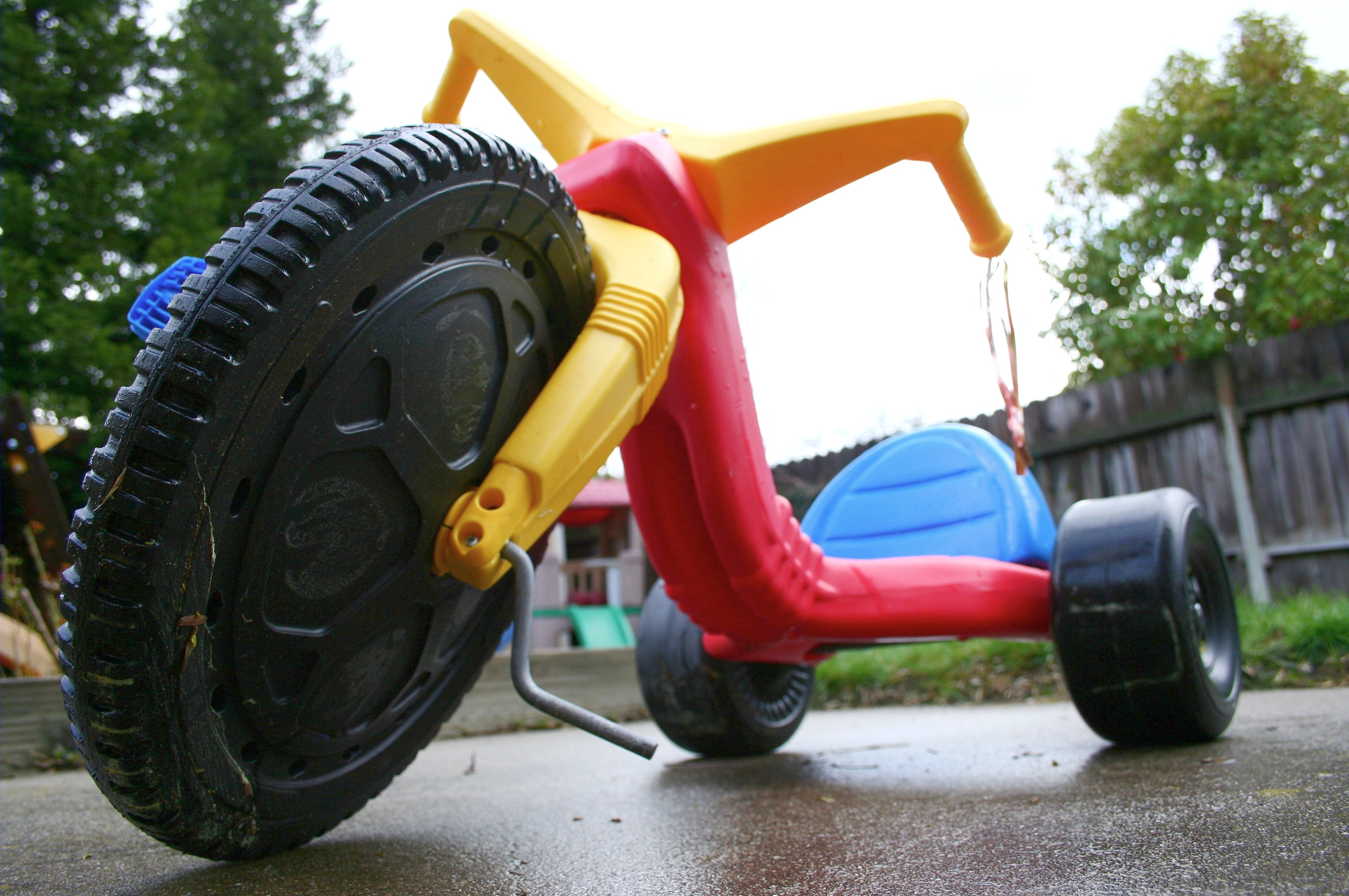 Not a lot of choices to shoot on a rainy day. Here's a picture of my son's Big Wheel. The point of the picture was to play up how big the front wheel is. Lately, I've fallen in love with my wide angle lens.